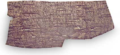 Young Novgorodians send to each other letters written on pieces of birch bark. Birch-bark letter no. 497, c. 1340-90, Novgorod; photograph Category:Manuscript images Afbeelding:Berkenbasttekst Novgorod 497.jpg